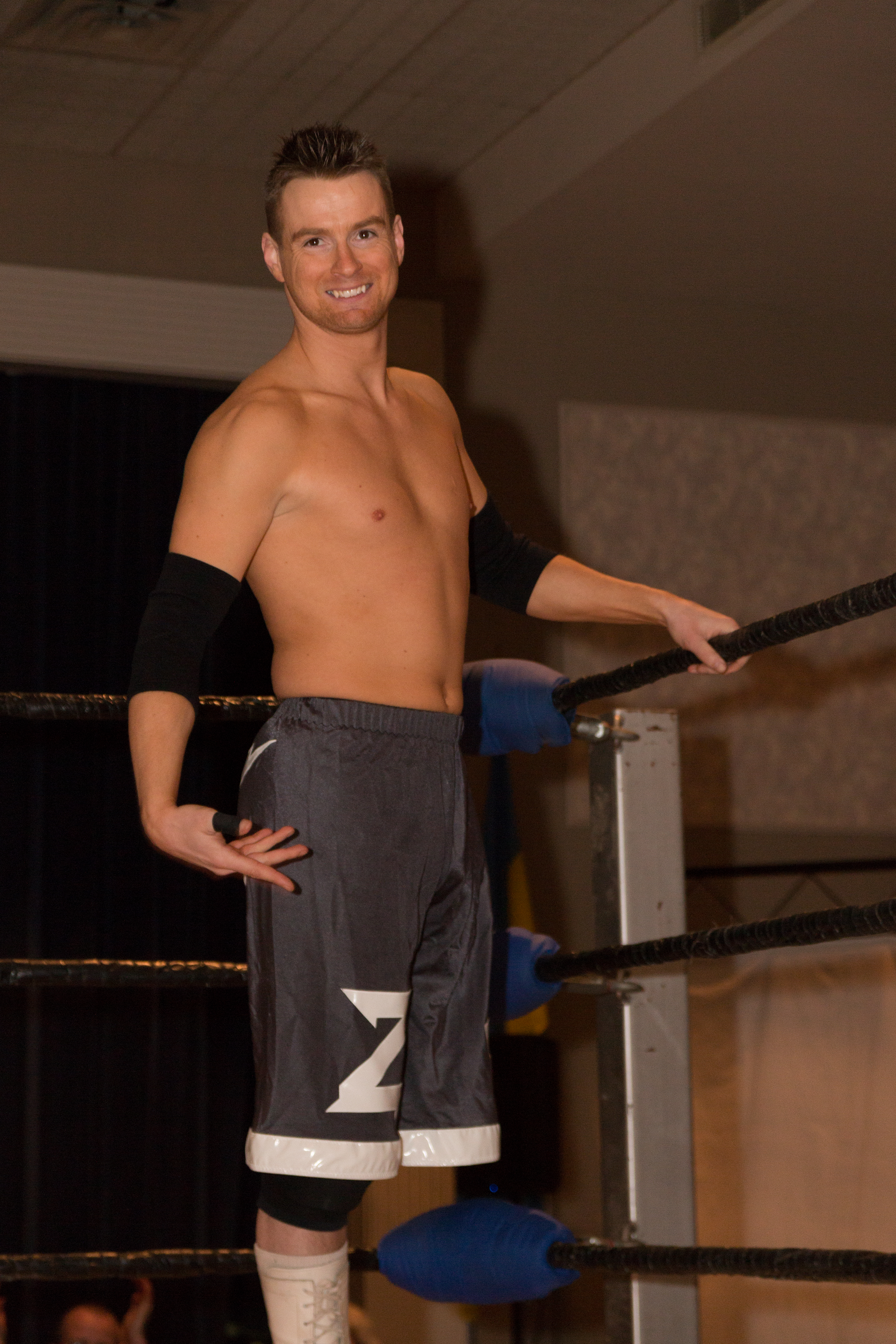 Zach Gowen at the Hardcore Roadtrip in London, ON